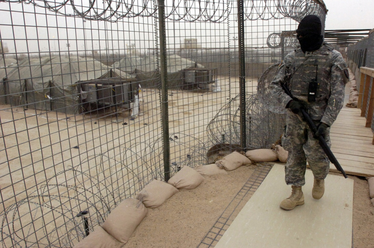 Sgt. Adonis Francisco, Alpha Company, 2-113th Infantry Battalion, patrols along a catwalk at the Camp Bucca Theater Internment Facility, the largest detention center in Iraq.